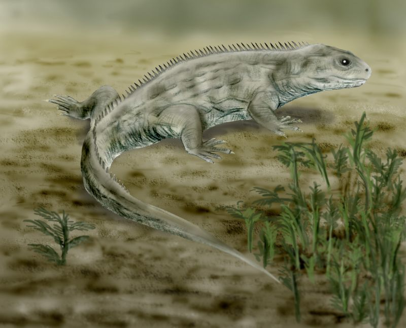 Brachyrhinodon taylori, a sphenodont from the Late Triassic of Scotland